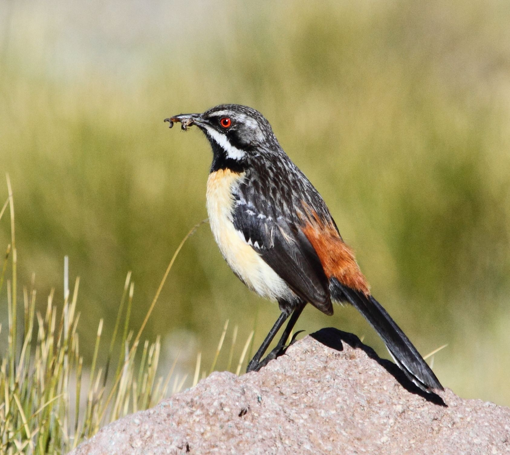 Male Drakensberg rockjumper Chaetops aurantius with insects. At Afriski, Butha-Buthe, Lesotho. This is a crop of Drakensberg rockjumper 2012 11 11 2064.jpg